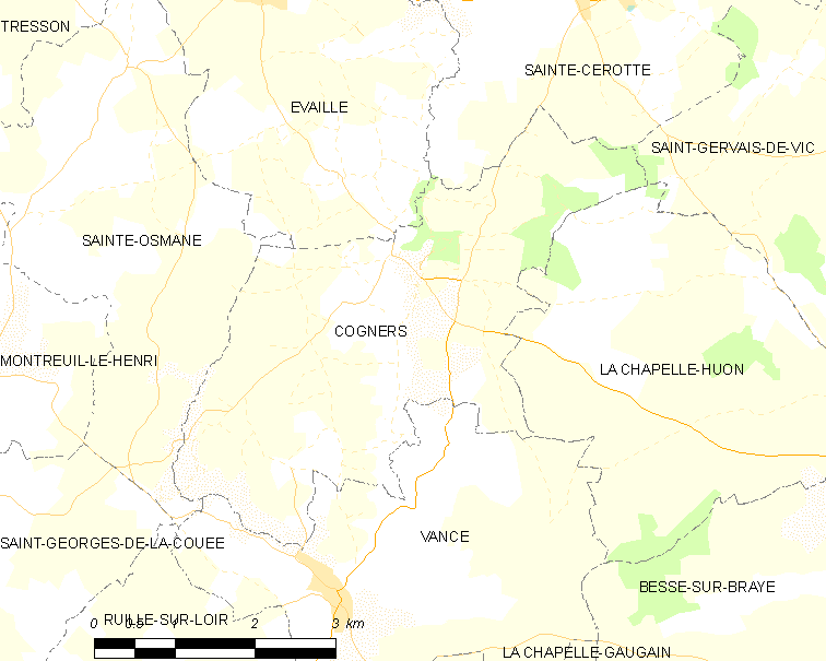 Map of French municipality